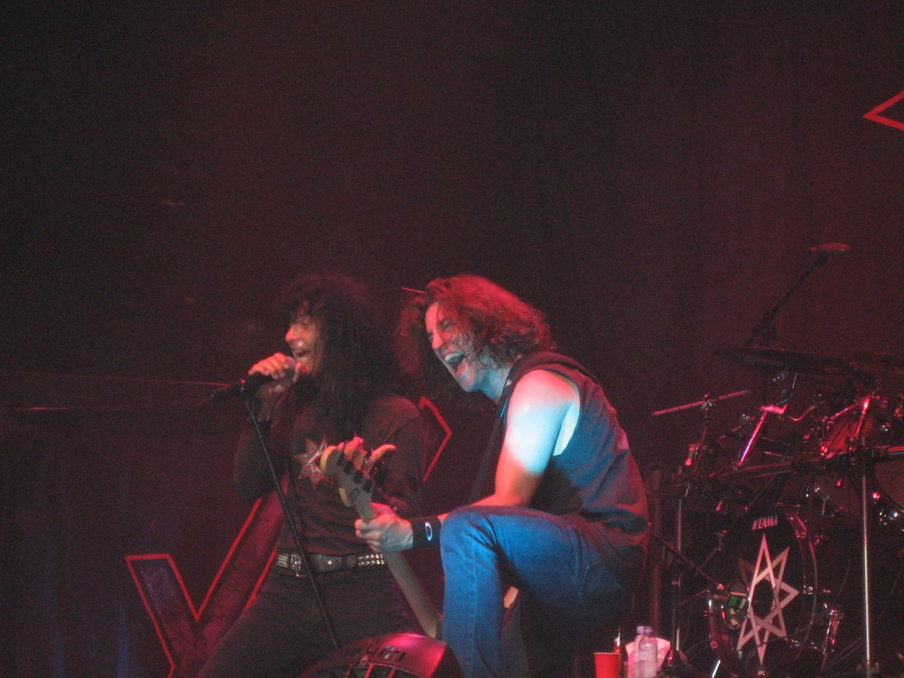 Judas Priest Retribution 2005 Tour